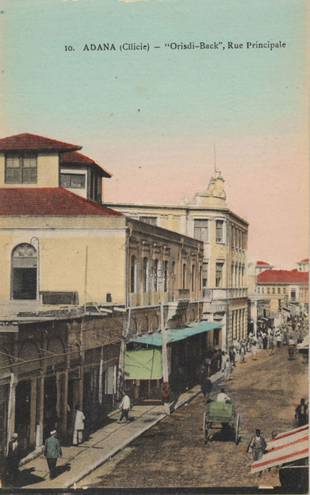 Adana - Rue Principale (now Ali Münif Street)